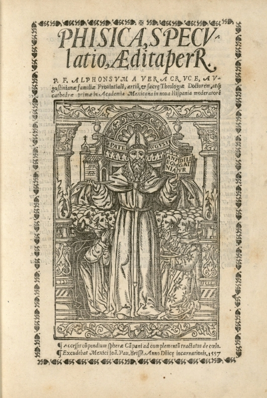 Title page of the Phisica speculatio, written by Alonso Gutiérrez and published by Juan Pablos in Mexico in 1557. Copy from the University of Texas Benson Library